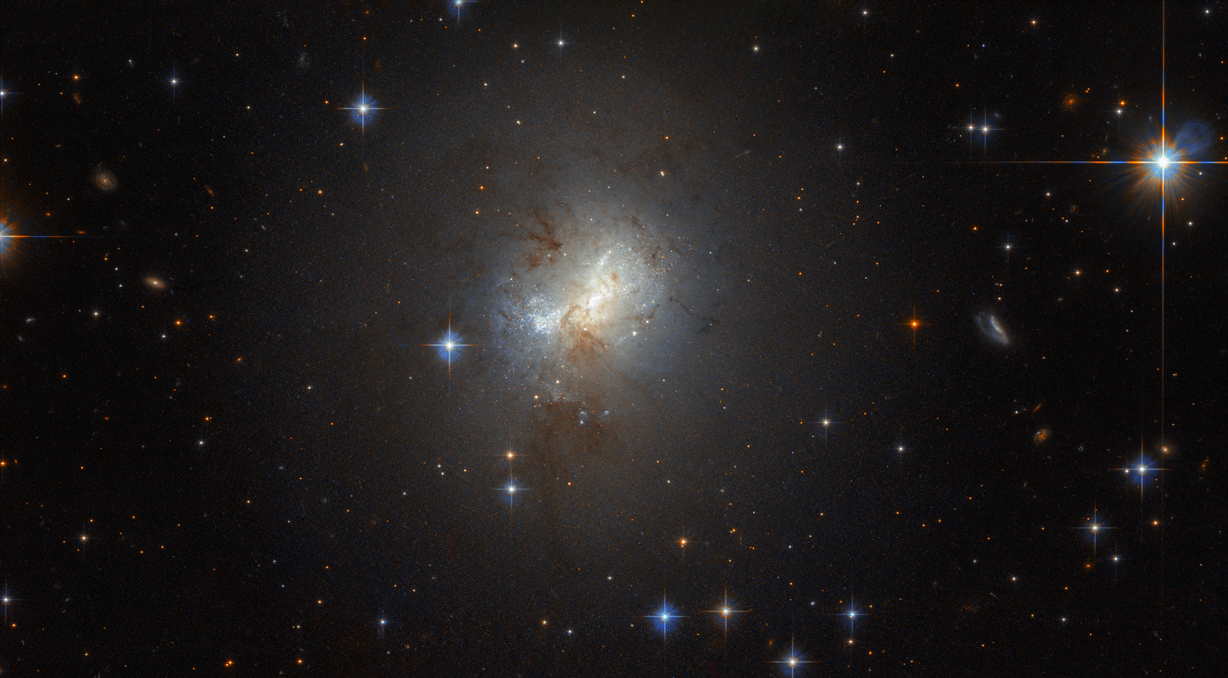 Nestled within this field of bright foreground stars lies ESO 495-21, a tiny galaxy with a big heart. ESO 495-21 is just 3000 light-years across, a fraction of the size of the Milky Way, but that is not stopping the galaxy from furiously forming huge numbers of stars. There are also indicators for a supermassive black hole in its centre - an unusual component for a galaxy of its size.